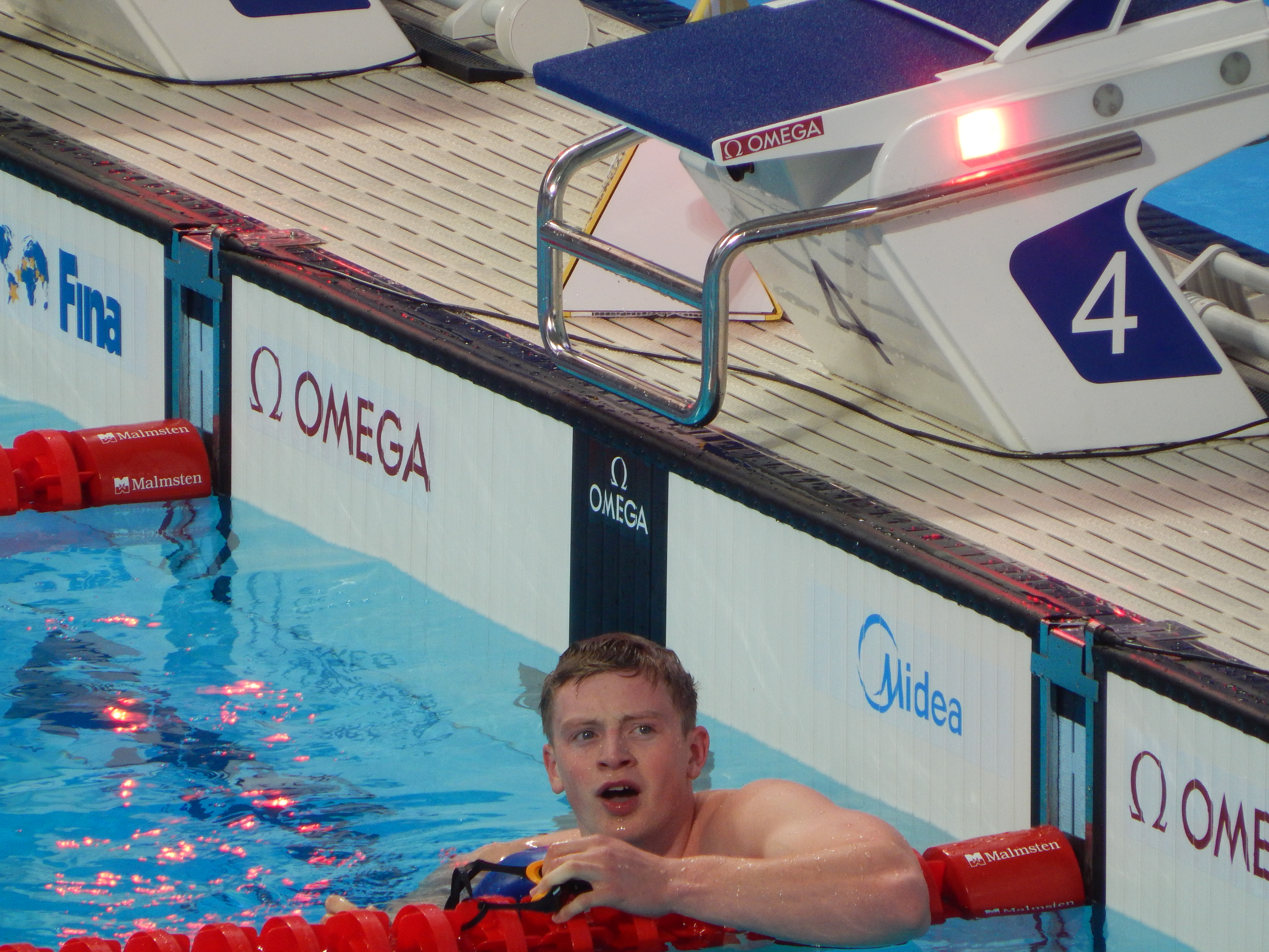 Adam Peaty after his win at 100m breast men's final in Kazan 2015